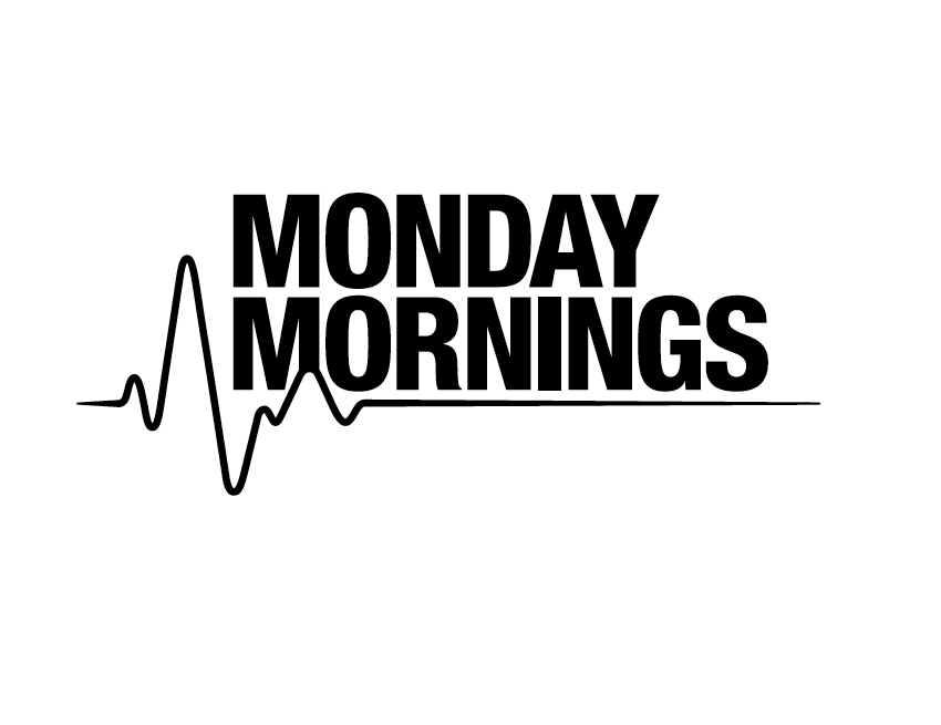 Logo for the US television show Monday Mornings